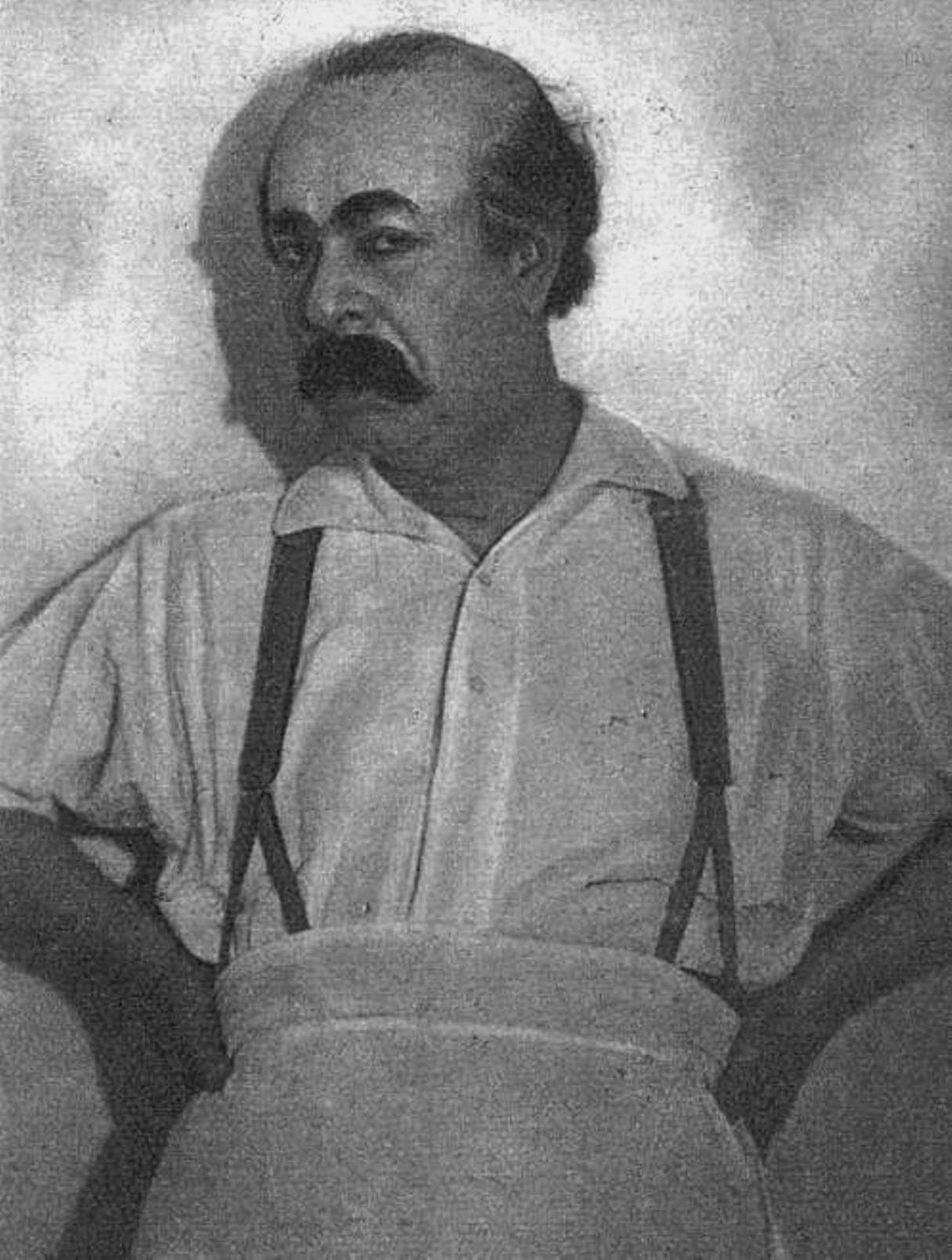 Photograph of Romanian actor Velimir Maximilian, dressed up as César, in Marcel Pagnol's play Marius (produced in Bucharest by Bulandra Company).